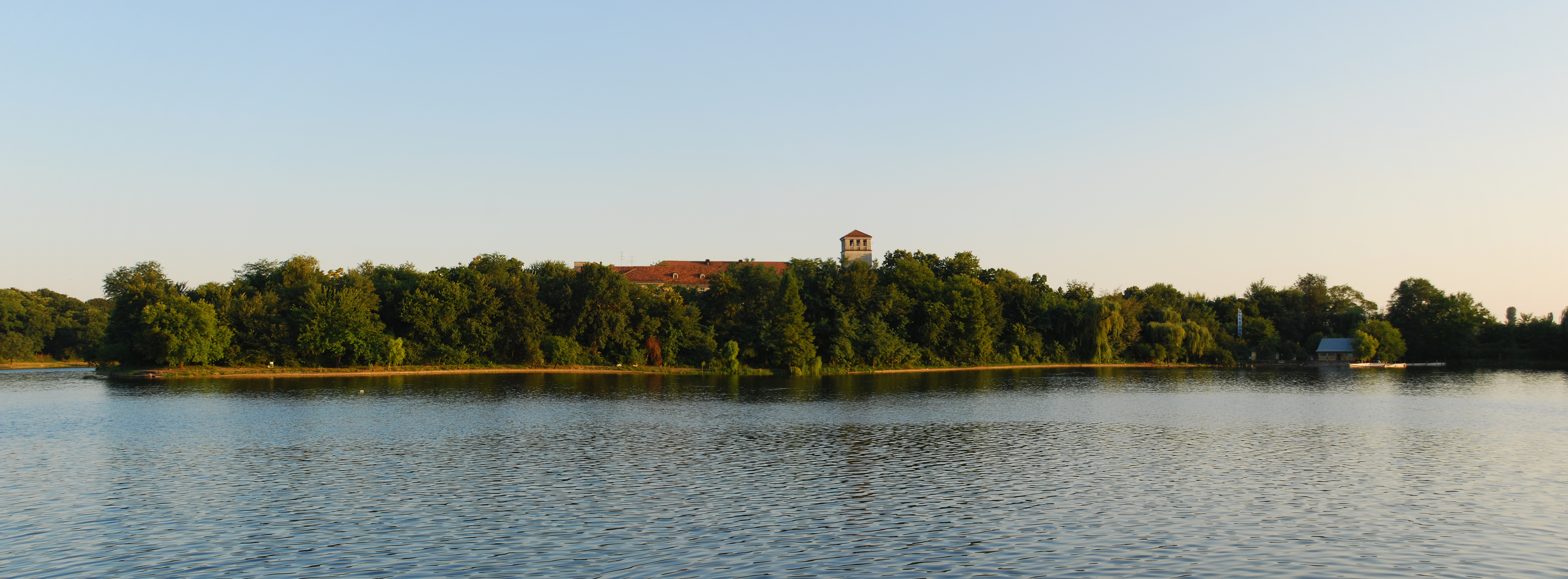 Lebăda hotel and restaurant, on its island on Pantelimon lake, town of Pantelimon, Ilfov County, RomaniaRomână: Restaurantul şi hotelul Lebăda, aflat pe insula sa de pe lacul Pantelimon, în oraşul Pantelimon, judeţul Ilfov, România